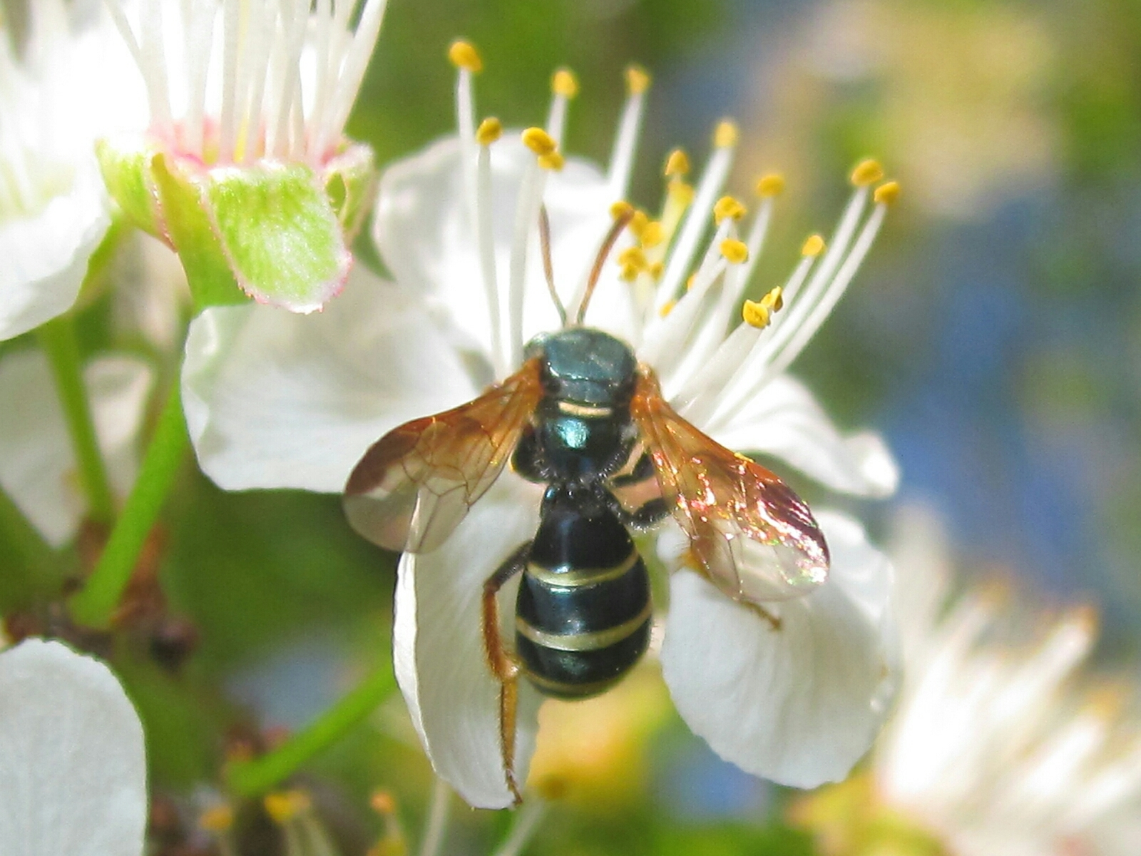 Corynura chilensis. Species of insect.